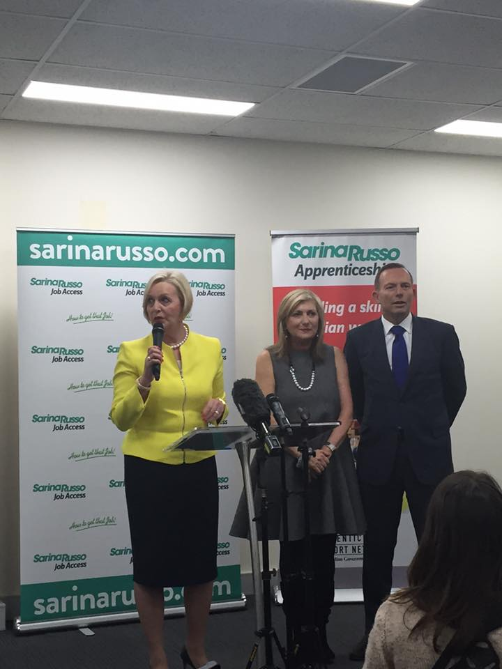 Taken by author at at Liberal Party function.